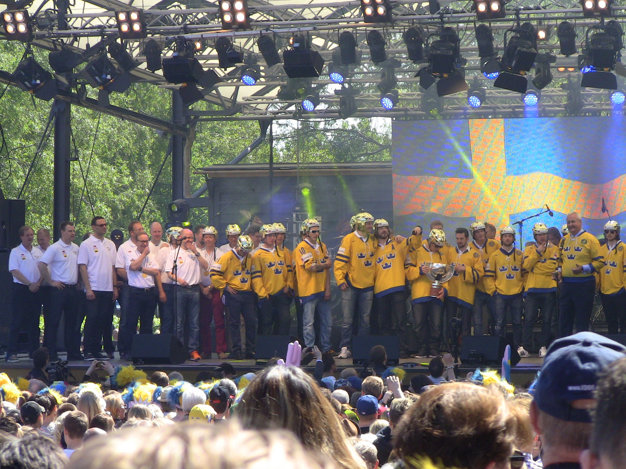 Sweden's national ice hockey team at Kungsträdgården in Stockholm.